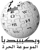 Arabic Wikipedia logo